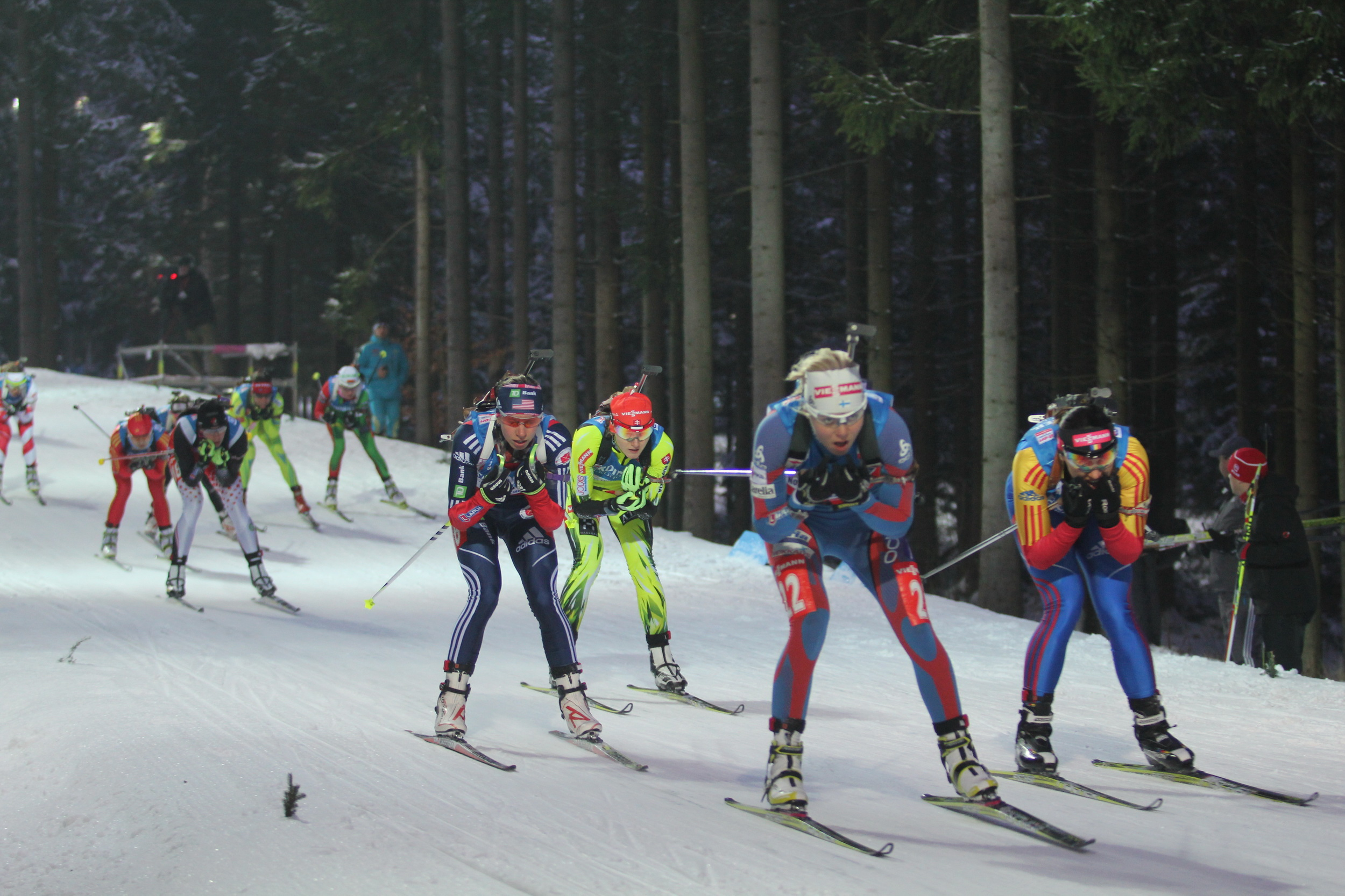 Jana Gereková at biathlon worldcup 2013 in Oslo